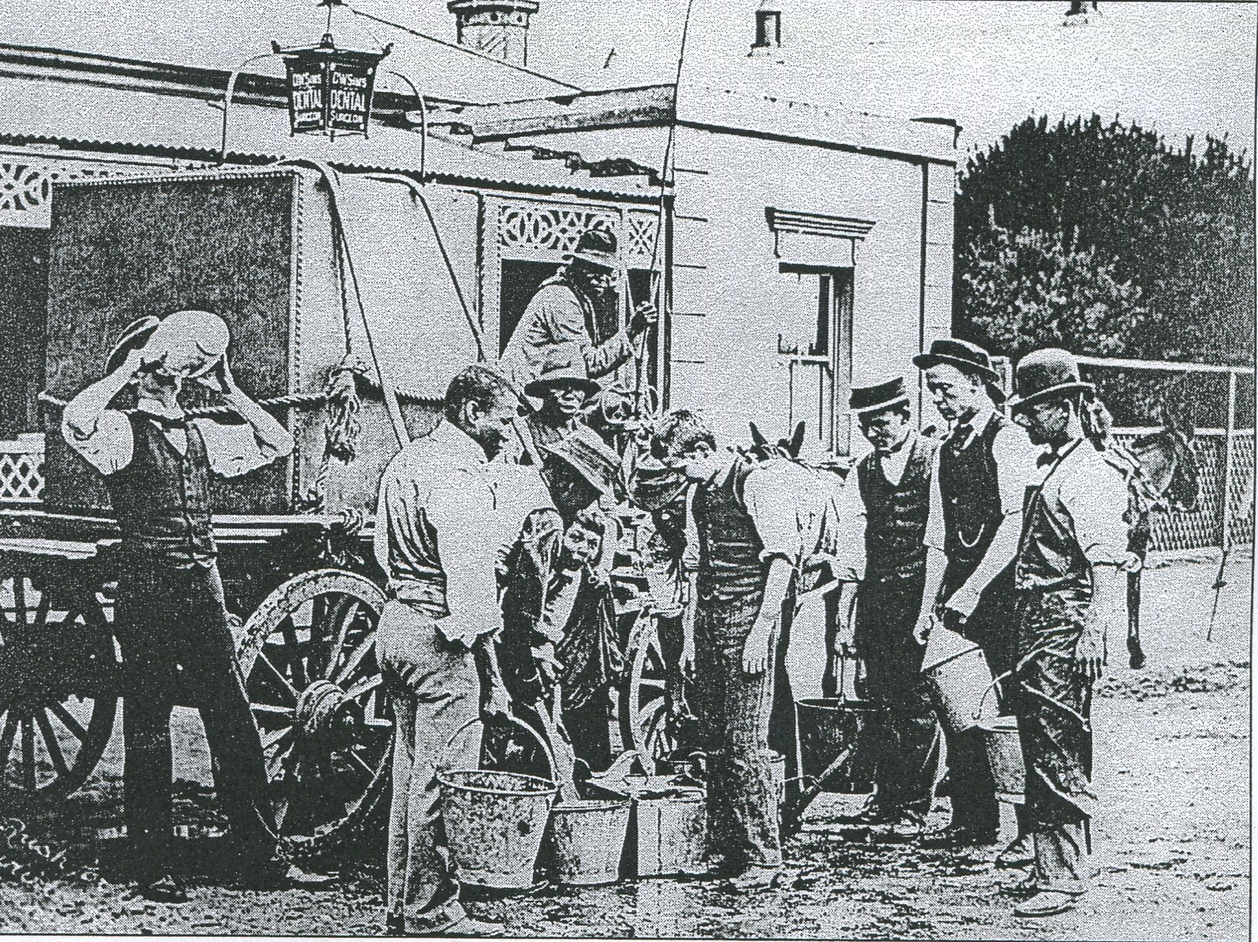 The Donald Mackay Park in Hillbrow Johannesburg. This is part of the works from the Johannesburg Heritage Foundation works given to the Joburgpedia project and other wikimedia projects.